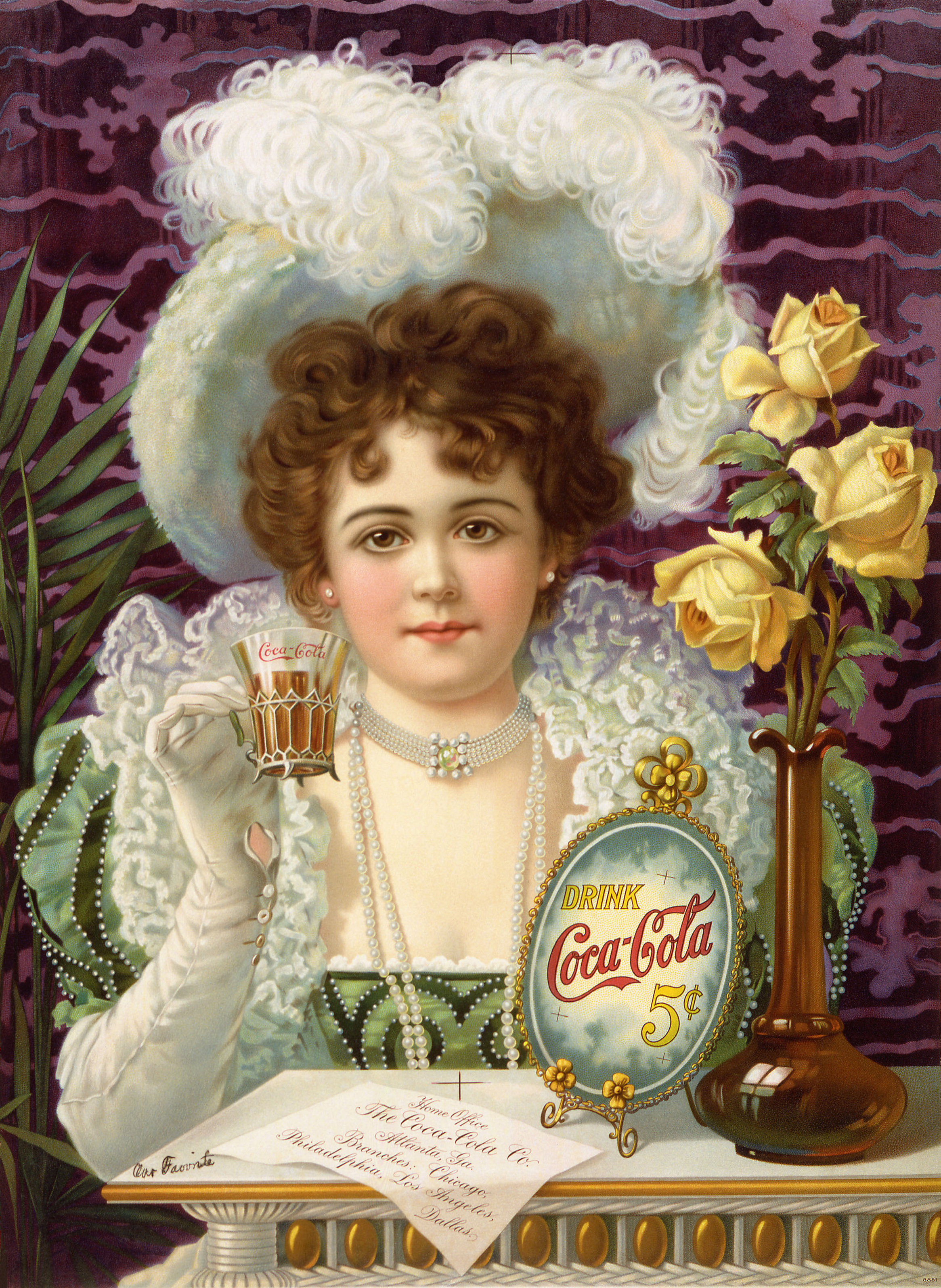 "Drink Coca-Cola 5¢", an 1890s advertising poster showing a woman in fancy clothes (partially vaguely influenced by 16th- and 17th-century styles) drinking Coke. The card on the table says "Home Office, The Coca-Cola Co. Atlanta, Ga. Branches: Chicago, Philadelphia, Los Angeles, Dallas". Notice the cross-shaped color registration marks near the bottom center and top center (which presumably would have been removed for a production print run). Someone has crudely written on it at lower left (with an apparent leaking fountain pen) "Our Faovrite" [sic]. The woman who modeled for this artwork was Hilda Clark (1872-1932).